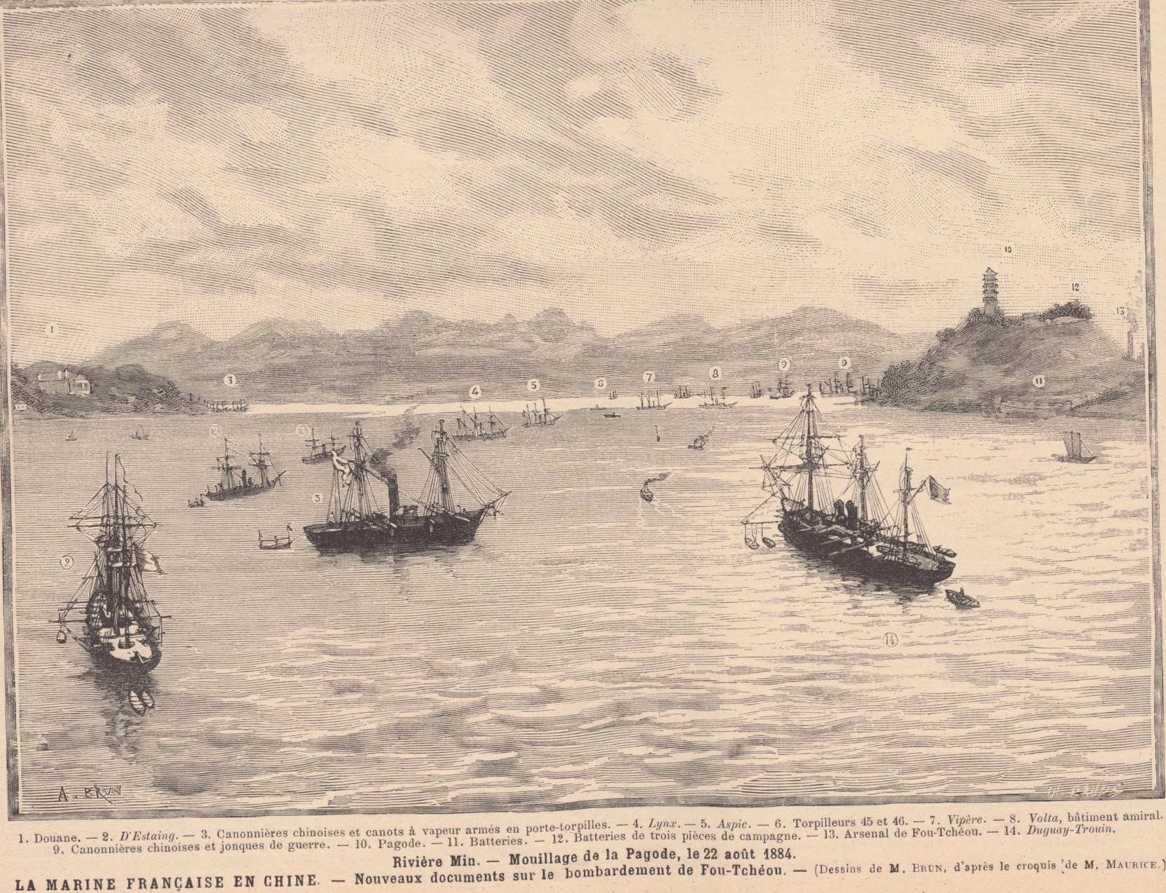 Situation of the French and Chinese fleets on the Min river, August 22, 1884. Marked in numbers are: (1) customs. (2) the Destaing. (3) Chinese gunboats and armed steam boats and torpedo boats. (4) the Lynx. (5) the Aspic. (6) torpedo boats 45 and 46. (7) the Viper. (8) the Volta, flagship of Courbet. (9) Chinese gunboats and war junks. (10) the Pagoda. (11) Chinese batteries. (12) three Chinese Krupp guns. (13) Fouzhou Arsenal. (14) the Duguay-Trouin